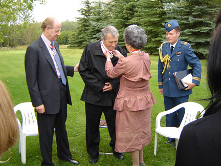 David Adams' investiture into the Order of Canada